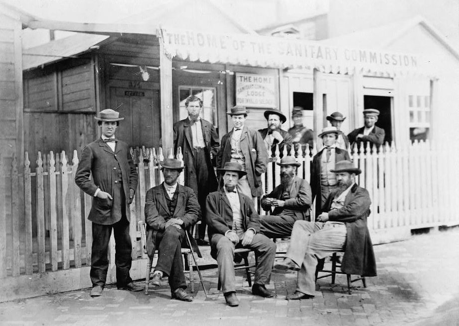 Summary: Twelve men posed in front of Sanitary Commission lodge, Washington, D.C.